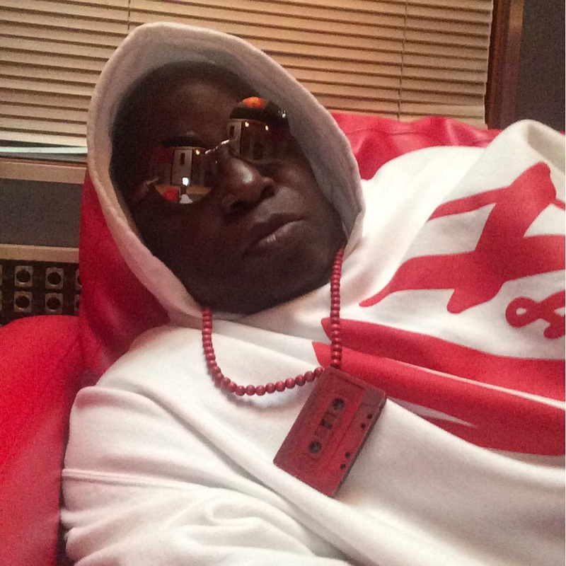 Image of BIGG D